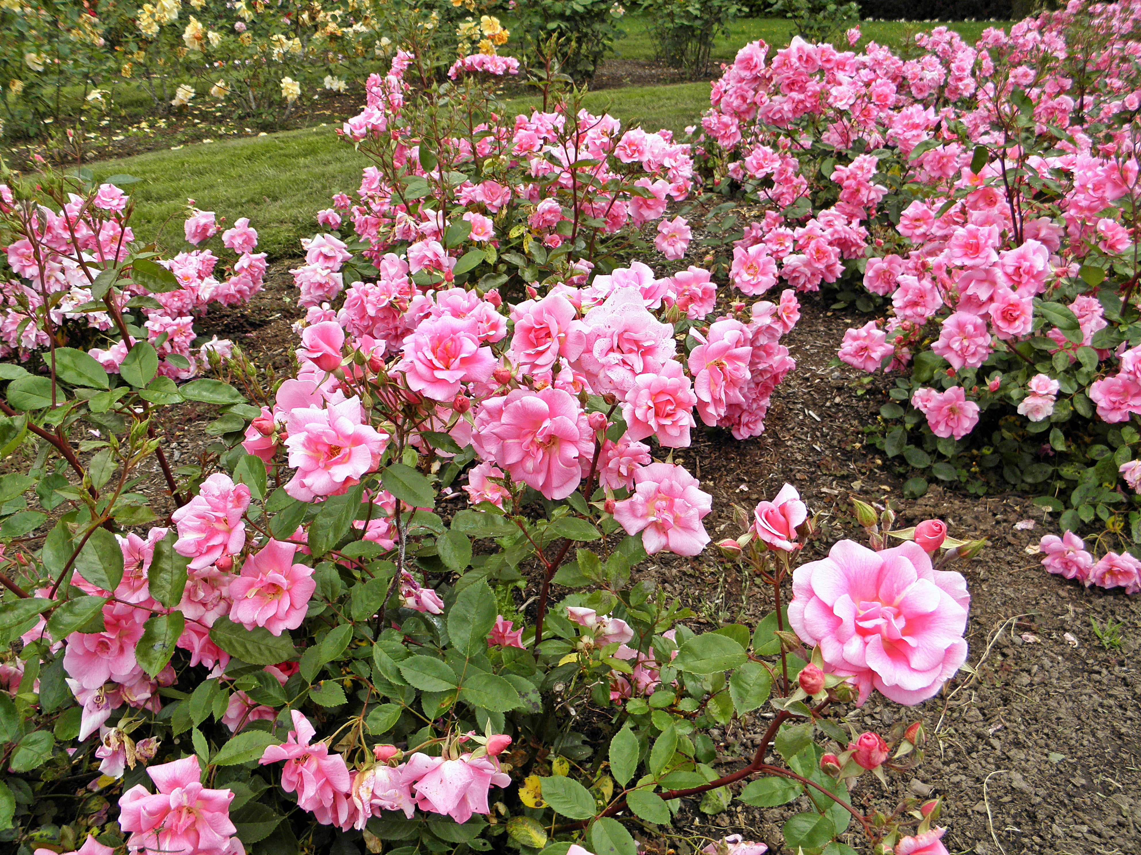 Floribunda Rose 'Pinkie'